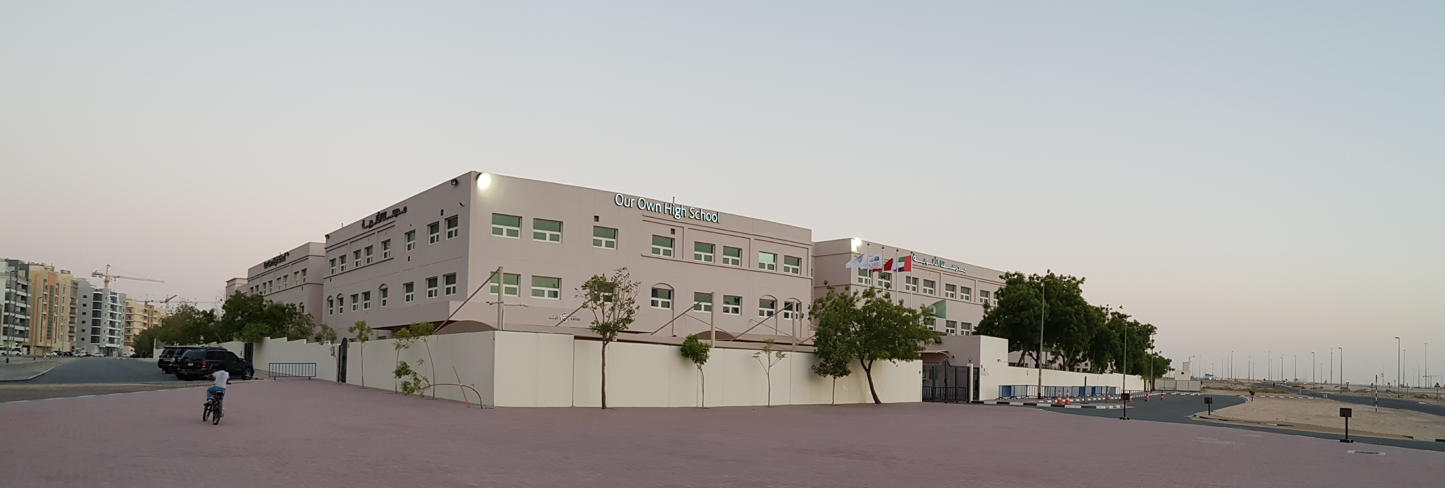 Gems our own High school for boys , Al Aaraa.